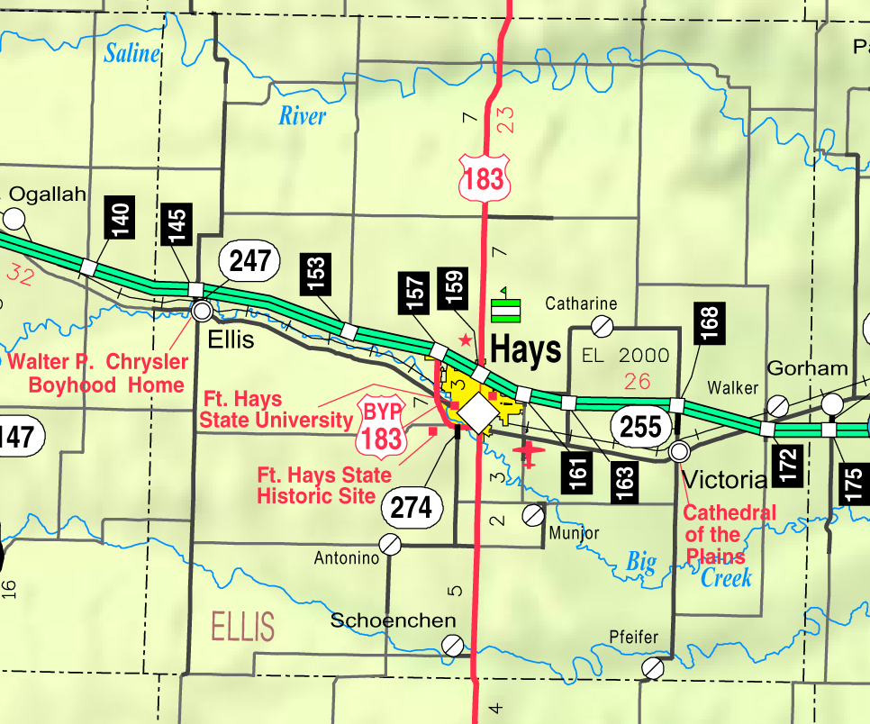 This map of Ellis County, Kansas, USA, is copied at a resolution of 300 pixels/inch from the original PDF file.